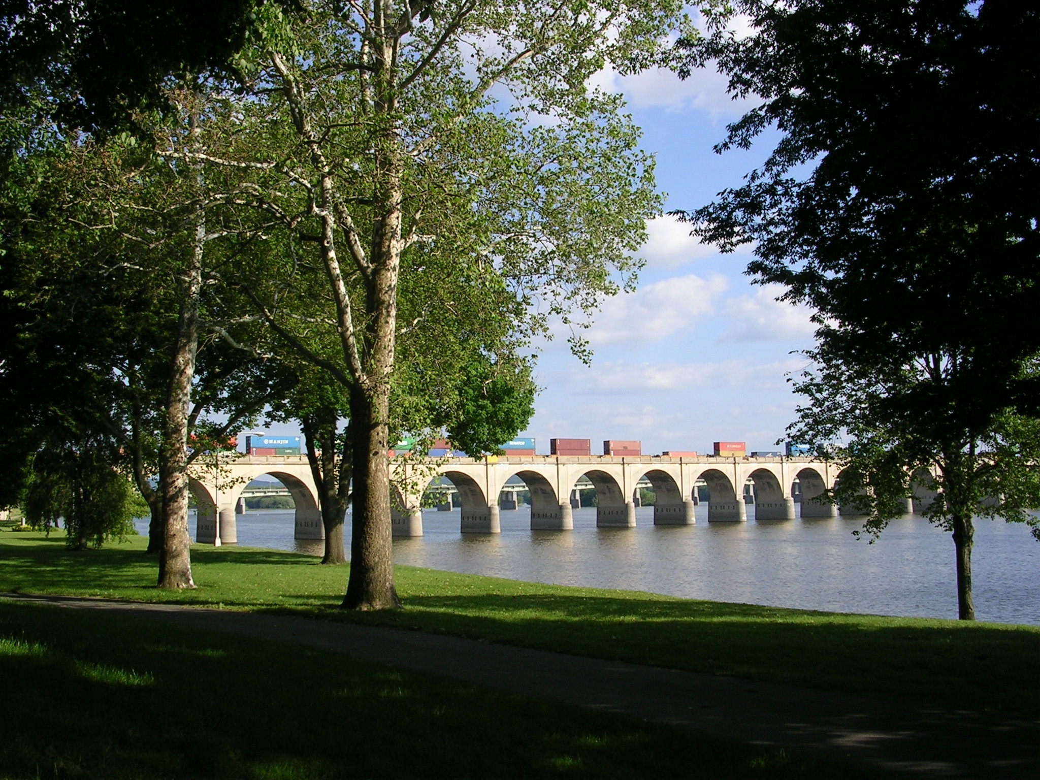 The Philadelphia & Reading Railroad Bridge in Harrisburg, Pennsylvania, seen from upstream on the east bank of the Susquehanna River.